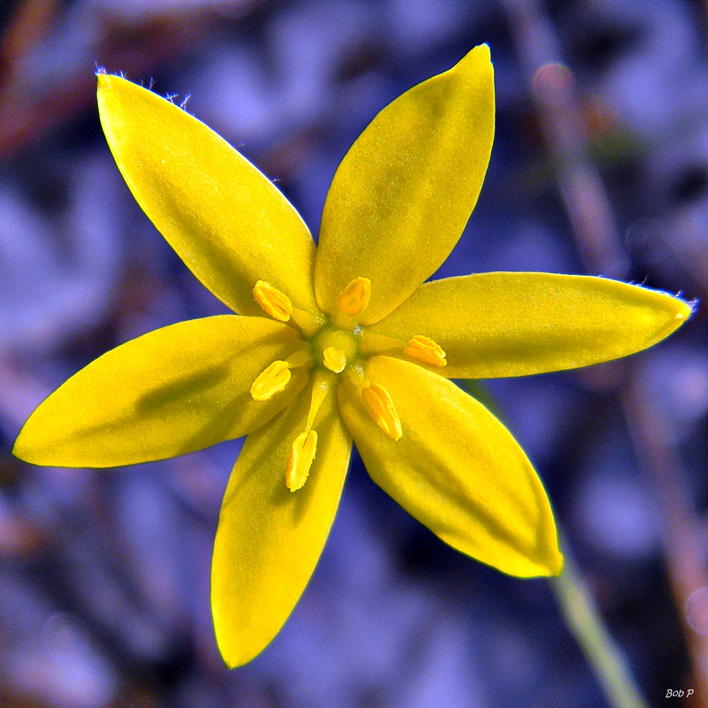 Hypoxis juncea, one of my favorite tiny wildflowers, punctuate the trails through the pine flatwoods at Jonathan Dickinson State Park. Little yellow stars illuminated by starlight! I have seen them listed as being in the Liliaceae and the Iridaceae but more recently they have been placed in the Hypoxidaceae family.